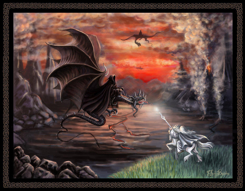 Fan art depicting Gandalf driving some of the Nazgûl away.